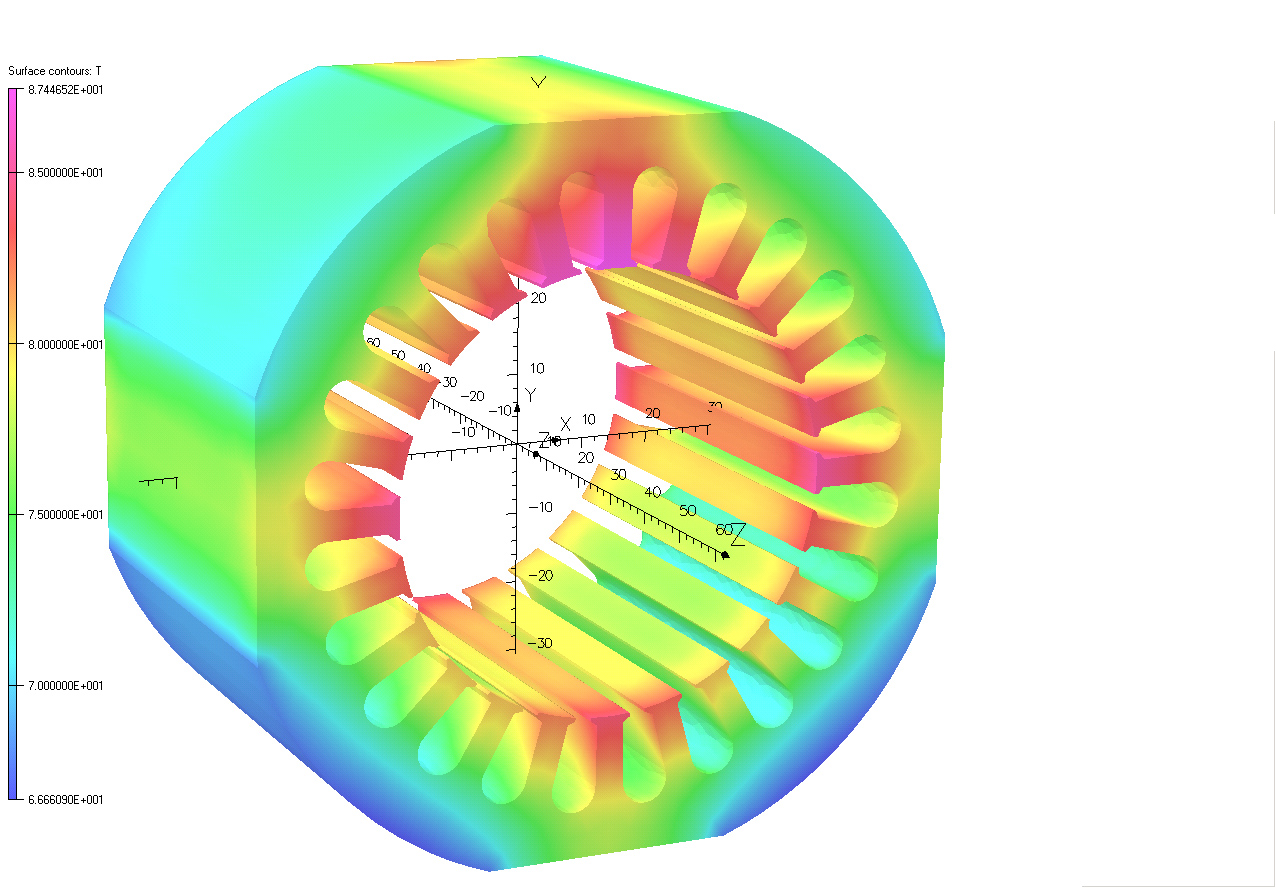 The temperature distribution at the motor core